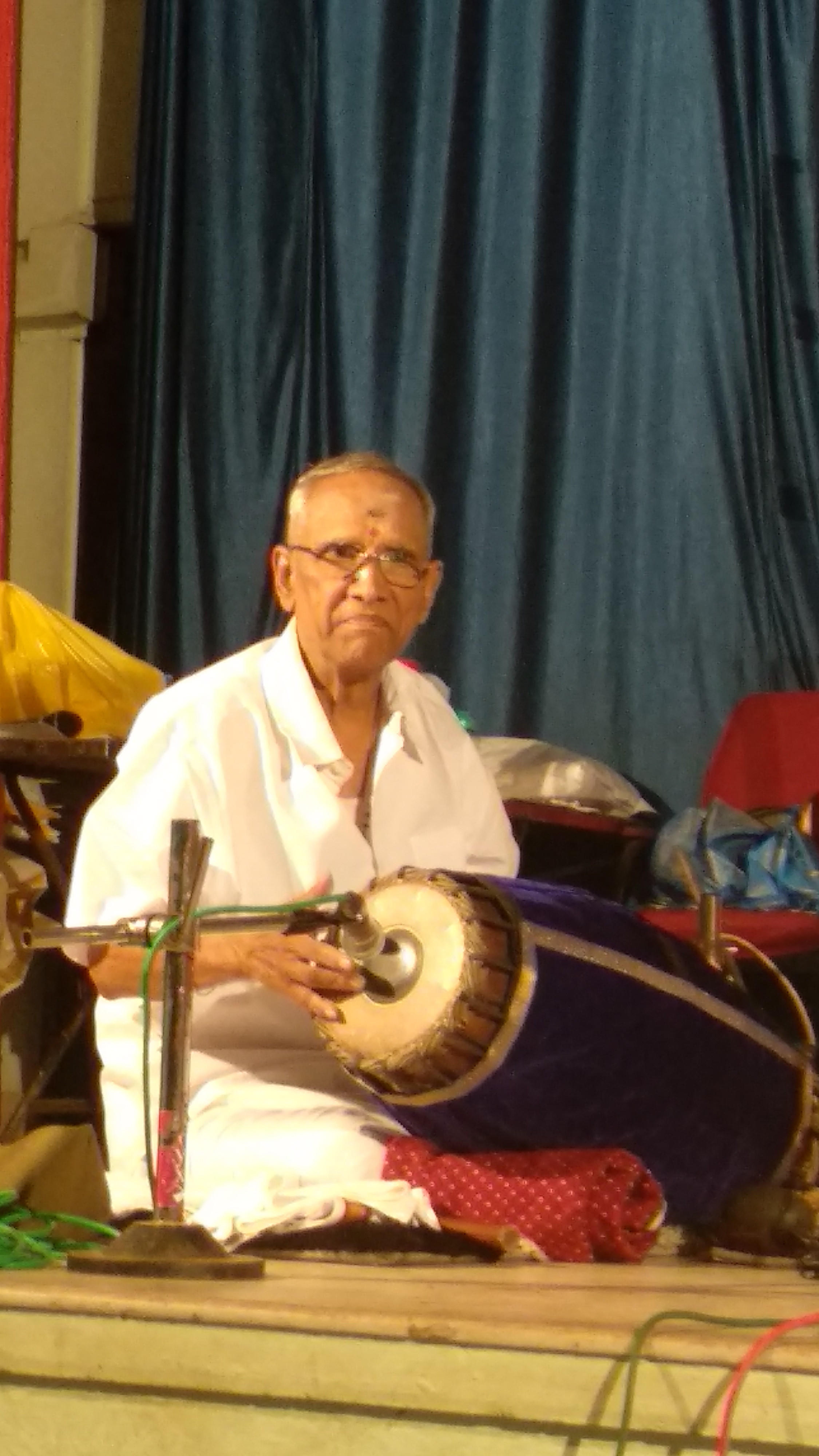 Mannargudi Easwaran_playing Mridangam